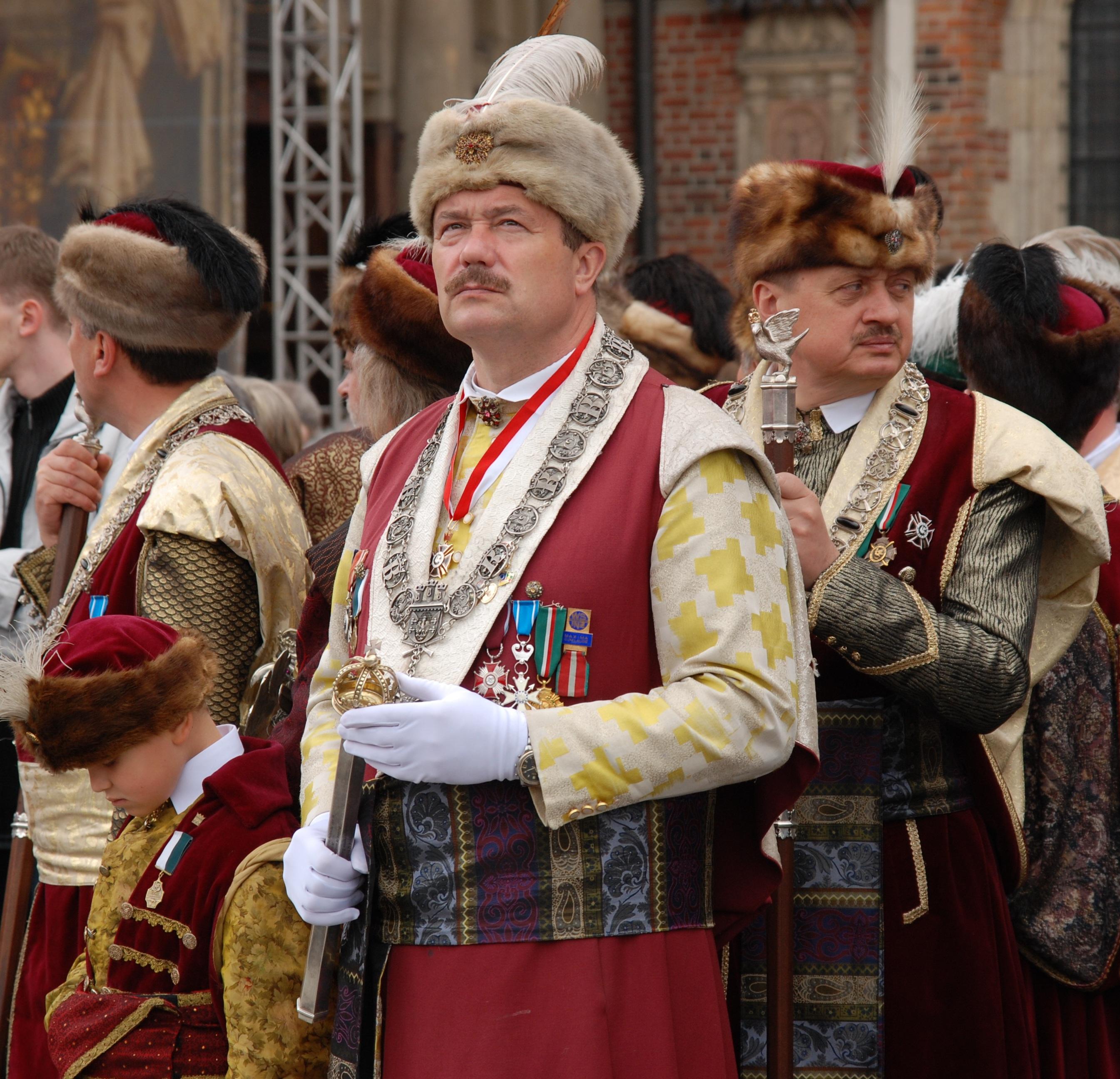 Kur's Fraternity (Shooting Society) from Kraków. Corpus Christi feat, Kraków, 2008